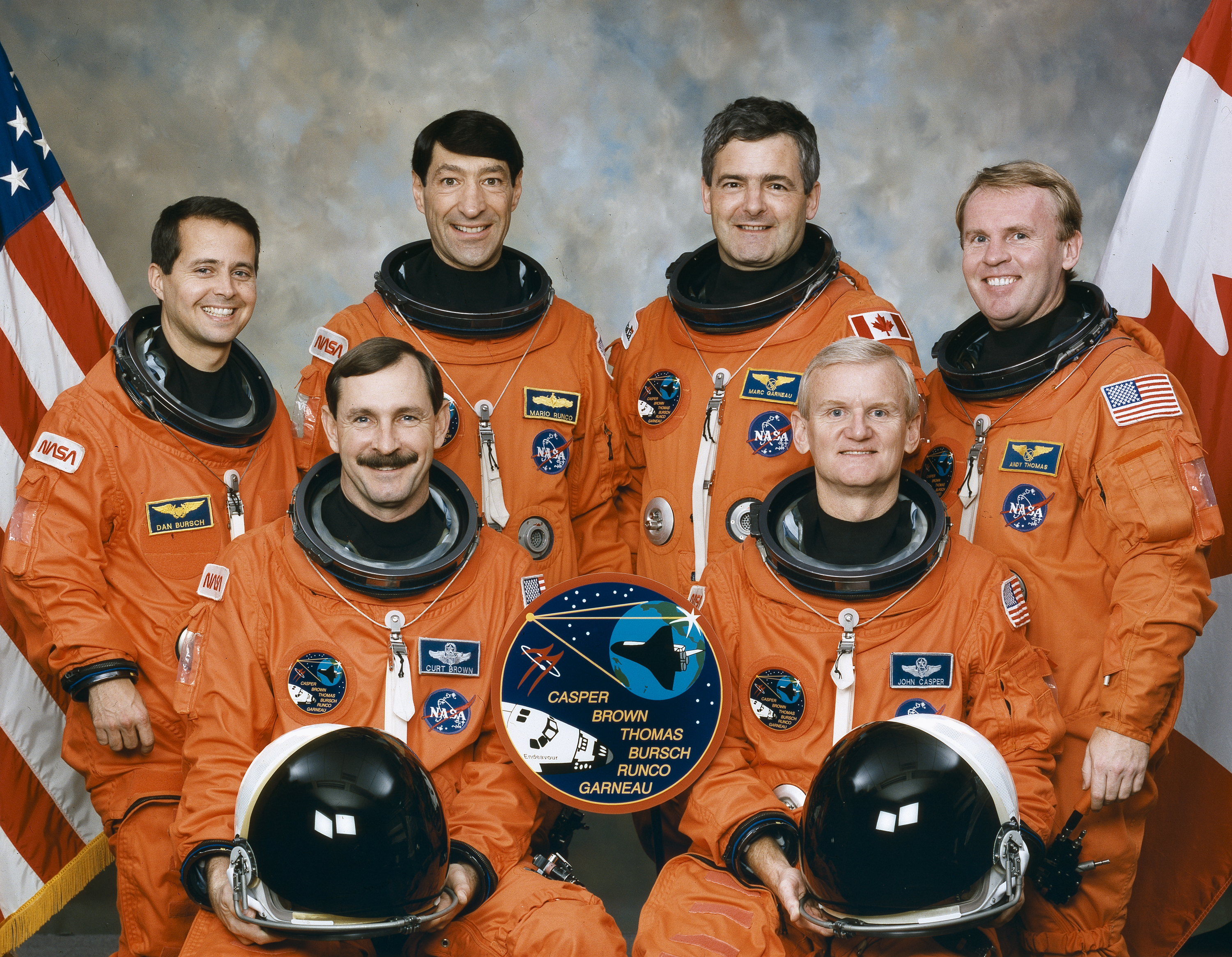 The crew assigned to the STS-77 mission included (seated left to right) Curtis L. Brown, pilot; and John H. Casper, commander. Standing, left to right, are mission specialists Daniel W. Bursch, Mario Runco, Marc Garneau (CSA), and Andrew S. W. Thomas. Launched aboard the Space Shuttle Endeavour on May 19, 1996 at 6:30:00 am (EDT), the STS-77 mission carried three primary payloads; the SPACEHAB-4 pressurized research module, the Inflatable Antenna Experiment (IAE) mounted on a Spartan 207 free-flyer, and a suite of four technology demonstration experiments known as Technology Experiments for Advancing Missions in Space (TEAMS).